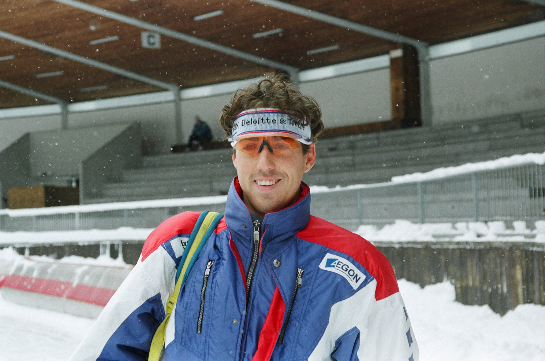 Bart Veldkamp is a former Dutch speedskater